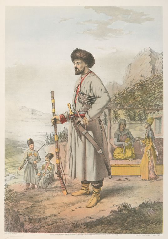 Circassian Warrior